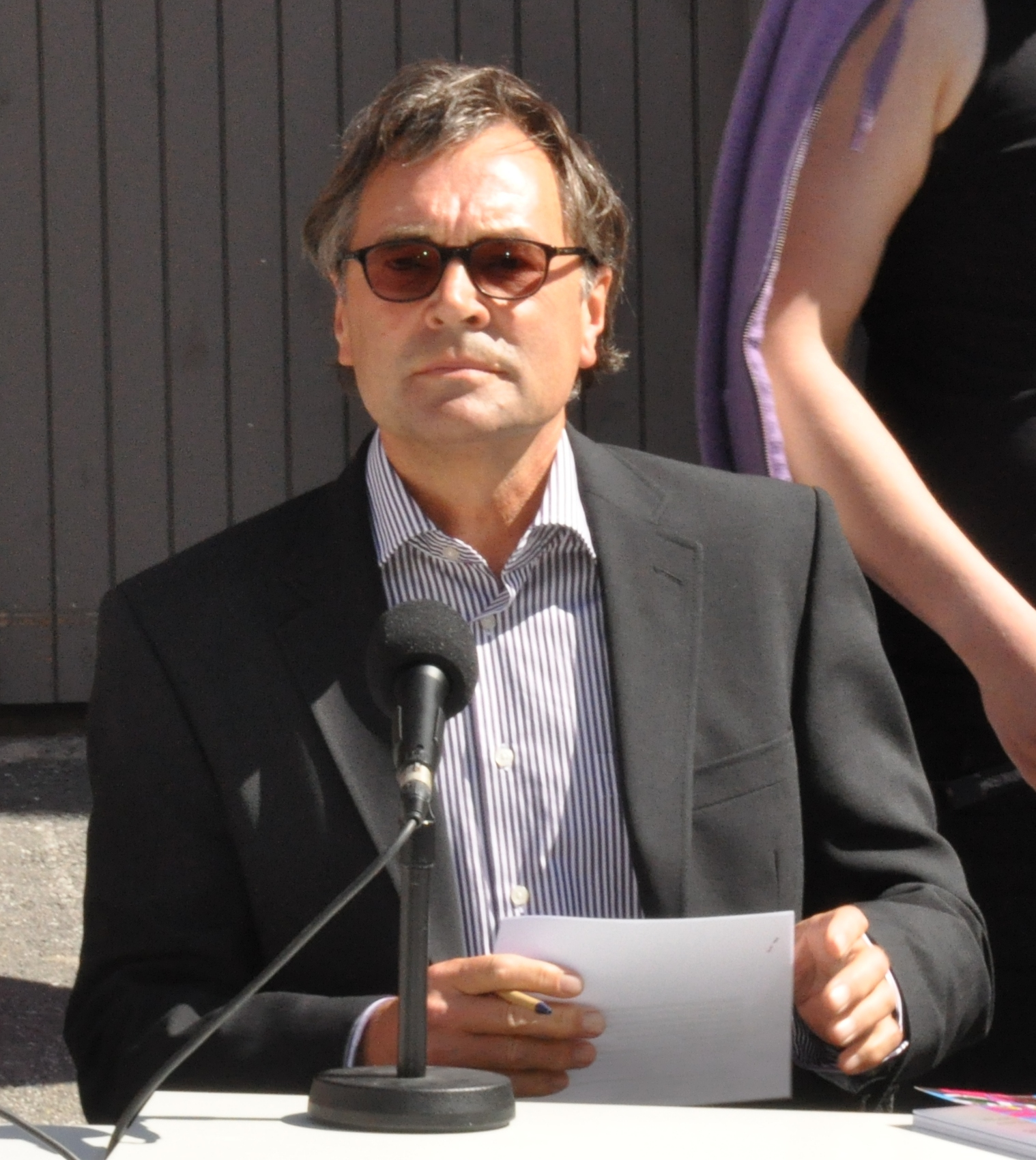 Finnish playwright Ilpo Tuomarila at the SuomiAreena 2009 event in Pori, Finland.